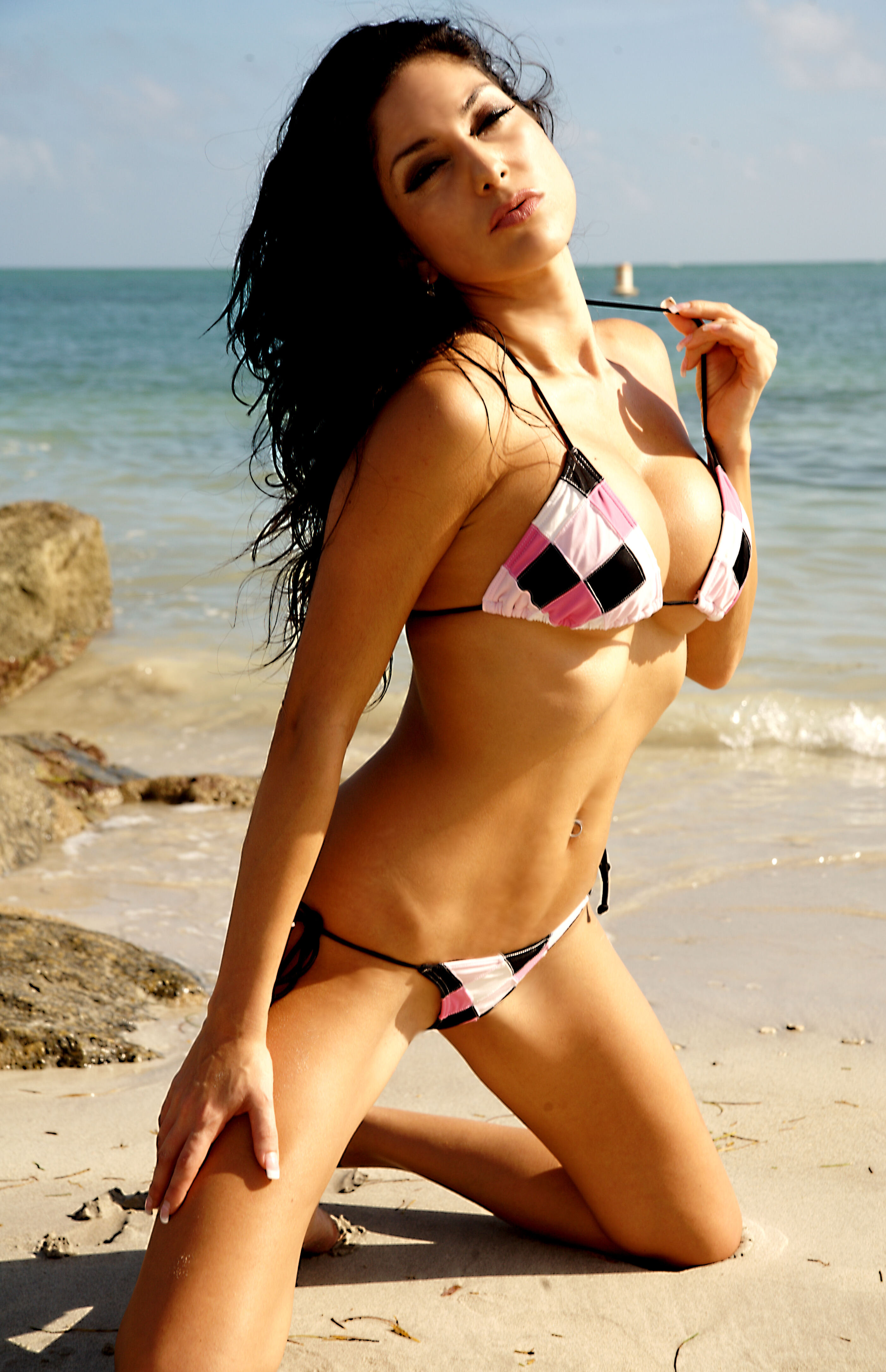 Model: Mija - South Beach, Miami